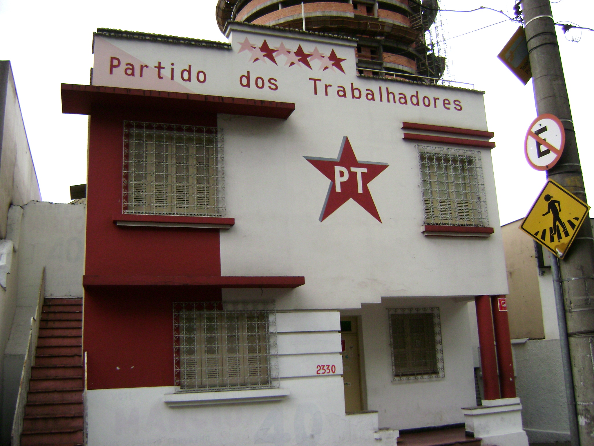 Filial (subsede) do PT em Belo Horizonte.